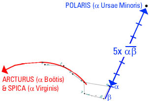 Guide to using Ursa Major to locate Arcturus, Spica, and Polaris (created by Montréalais).